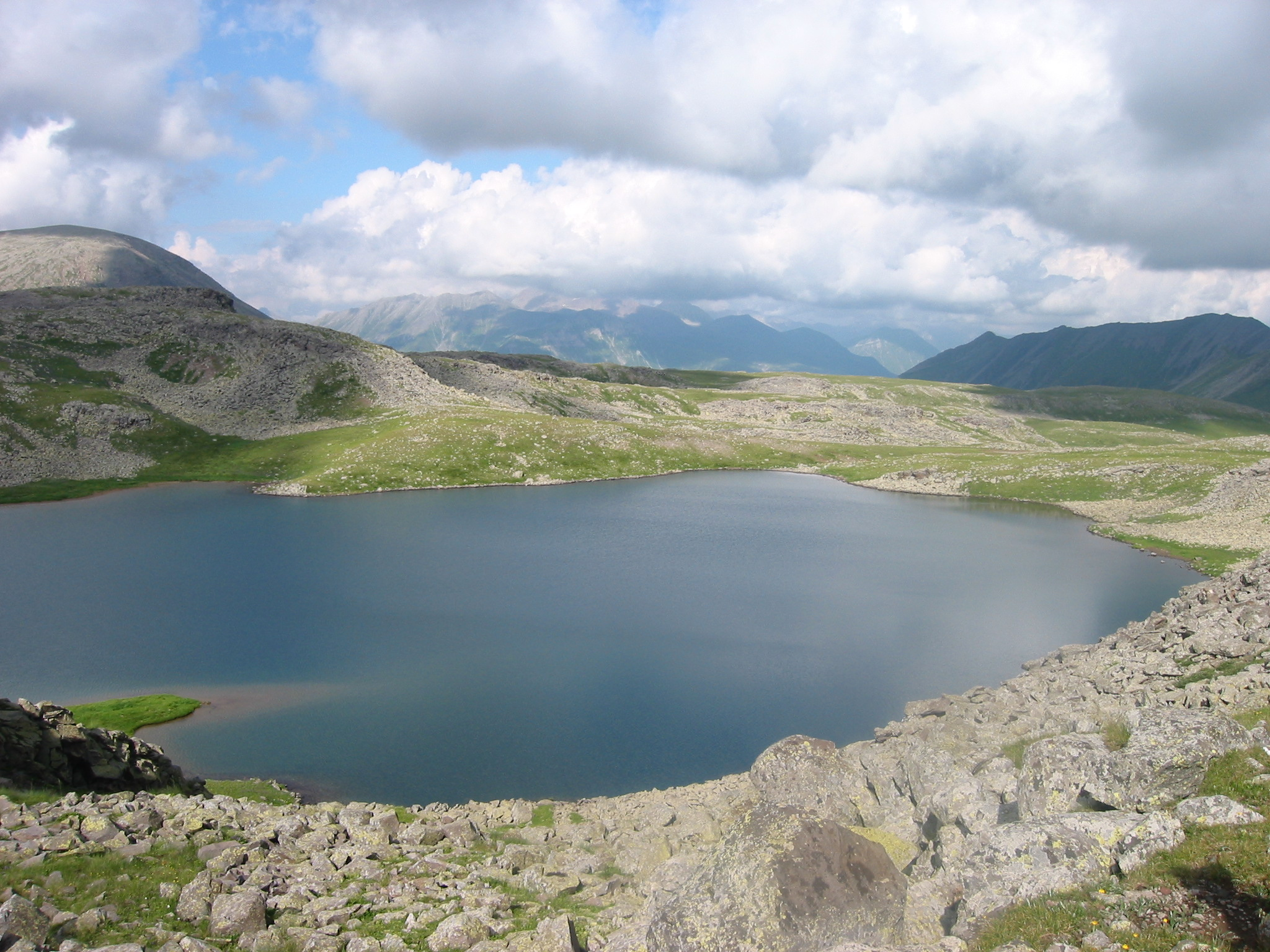 Keli Lake 09.08.2005